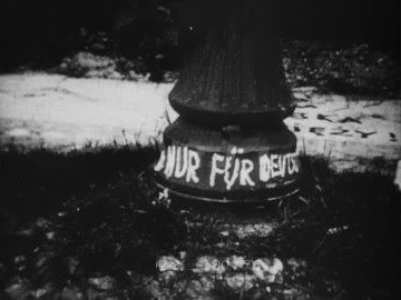 Warsaw in occupied Poland (1939-1945). Ironic graffiti on the lamppost: Only for Germans (Nur fur Deutsche). Here as antinazi slogan. Behind the lamppost there is text on the pavement: Poland will win!